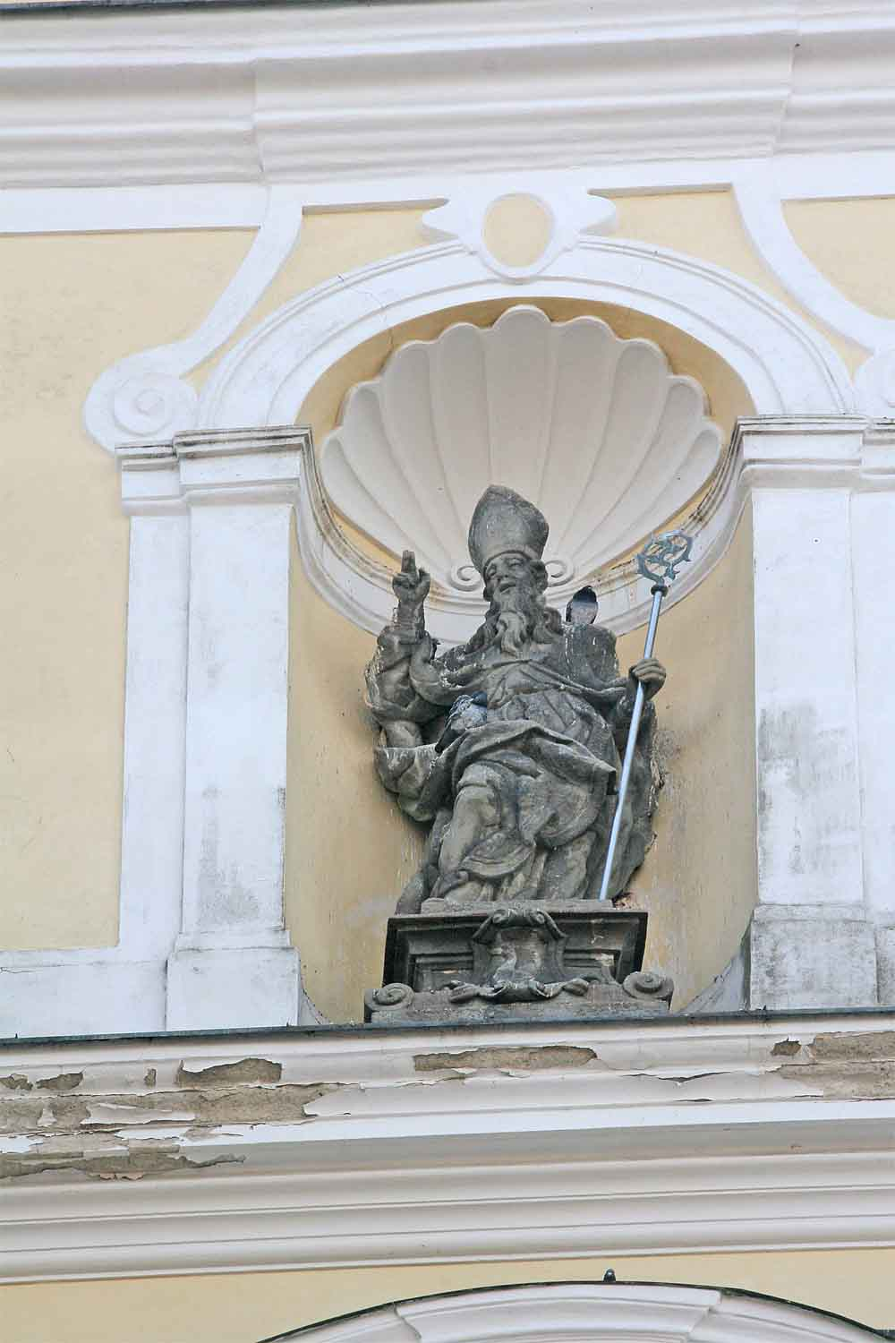 Sculpture of St Adalbert of Prague on front of St Martin church in Holice, Pardubice District, Czech Republic